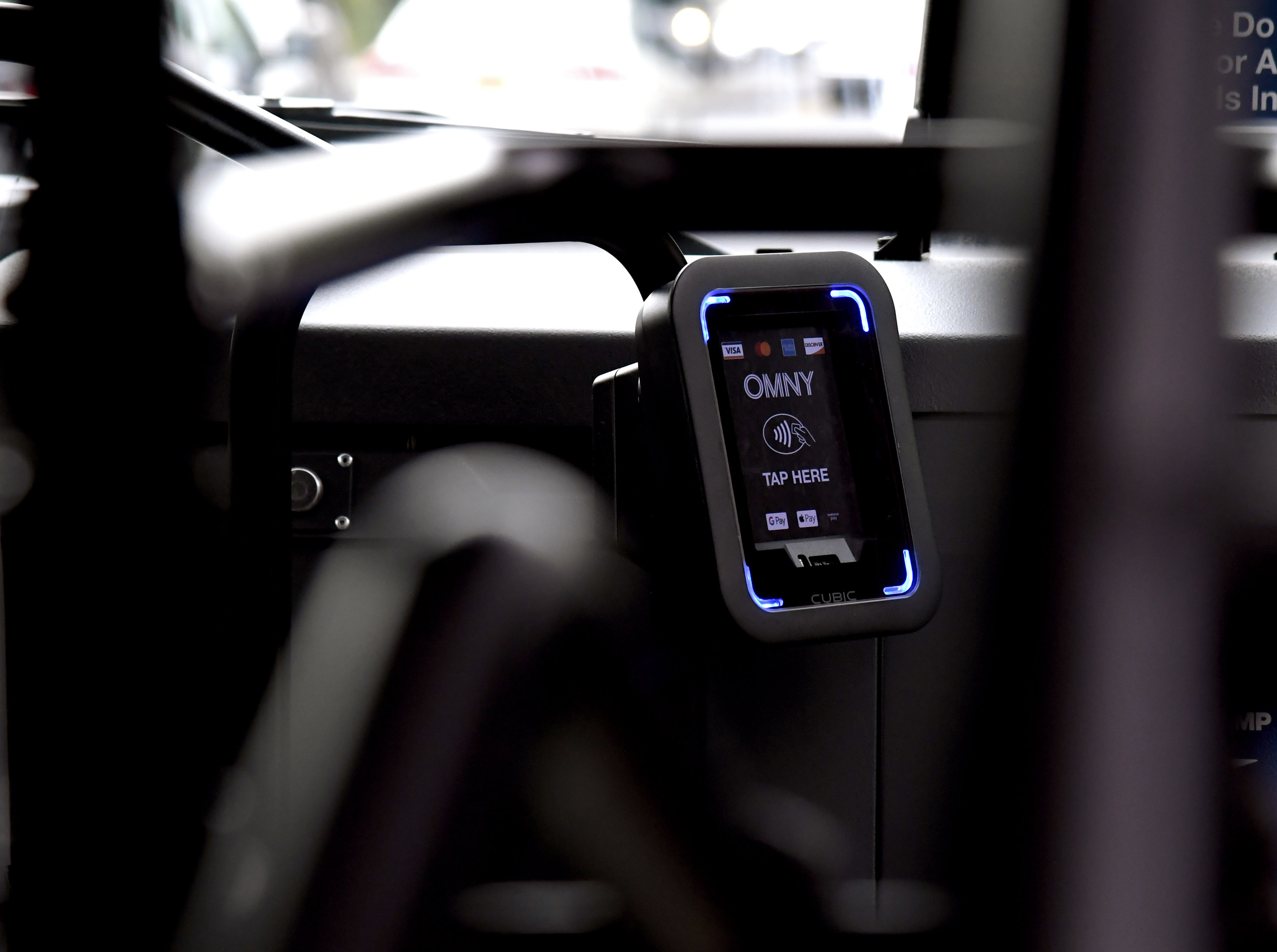 On Monday, June 17, 2019, Metropolitan Transportation Authority (MTA) leadership and Congressman Max Rose announced that 77 new state-of-the-art buses will be put into service on Staten Island this year as the MTA works to modernize bus service with new vehicles and a new contactless fare payment system that speeds entry and allows all-door boarding. The new buses are equipped with modern customer amenities such as readers for the new payment system OMNY, USB charging ports, Wi-Fi and digital screens, and safety technology such as a pedestrian turn warning system and cameras. They replace Orion Hybrid buses from 2009 currently in service on Staten Island, and will be used on routes operating out of the Yukon Bus Depot, which includes S79 Select Bus Service. Additionally, the MTA is in the process of procuring 50 new coach buses that will be put into Staten Island express bus service in 2021. Photo: MTA New York City Transit / Marc A. Hermann